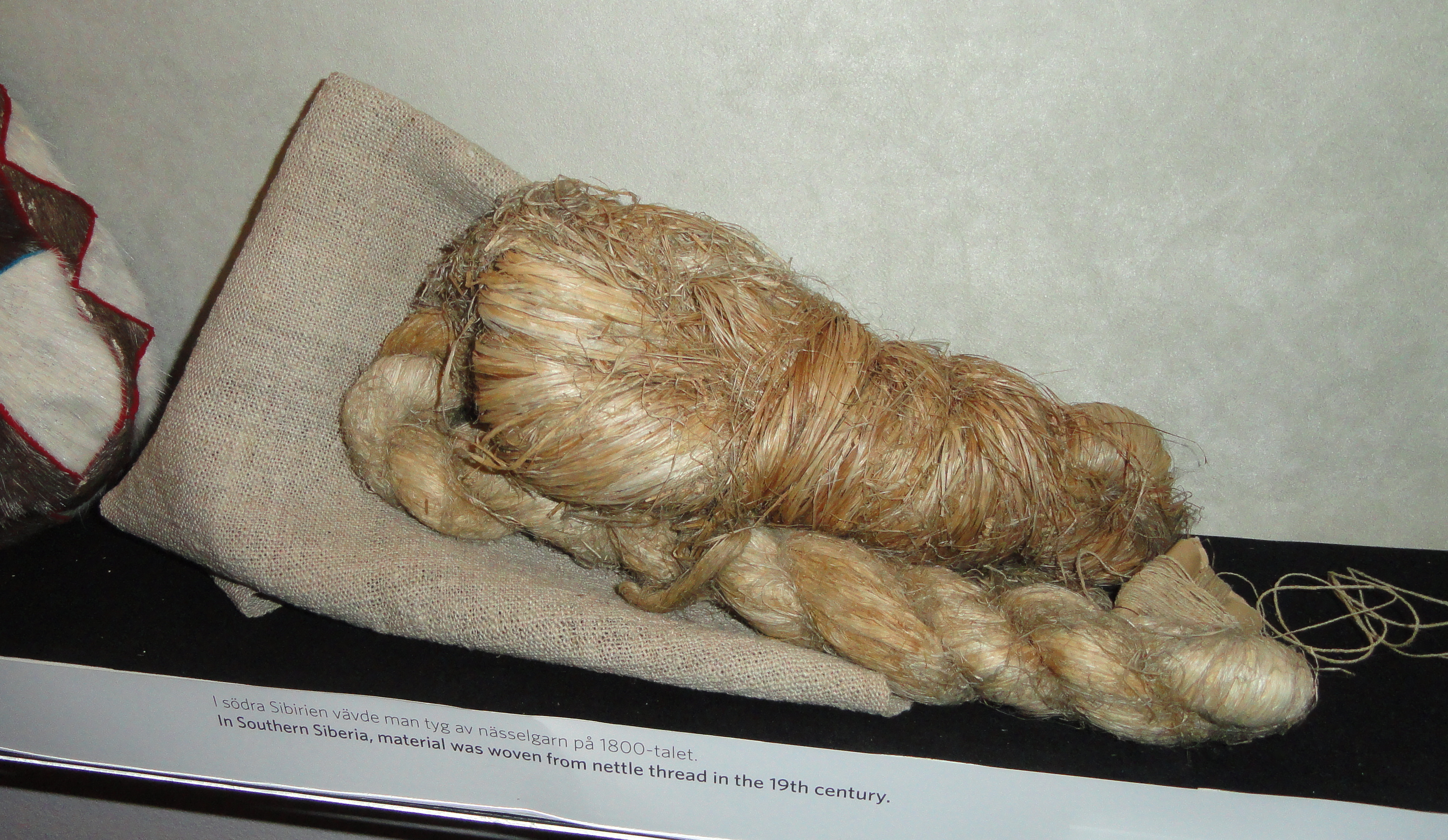 Clothing exhibit in the Museum of Cultures, Helsinki, Finland.